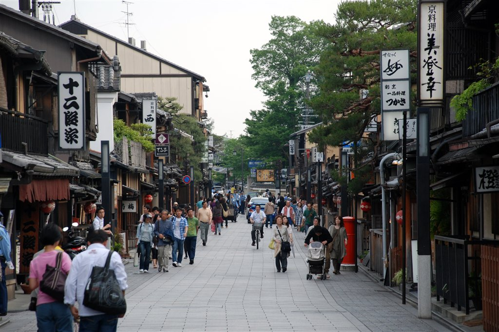 Hanamikoji-dori in Kyoto, Kyoto pref., Japan.